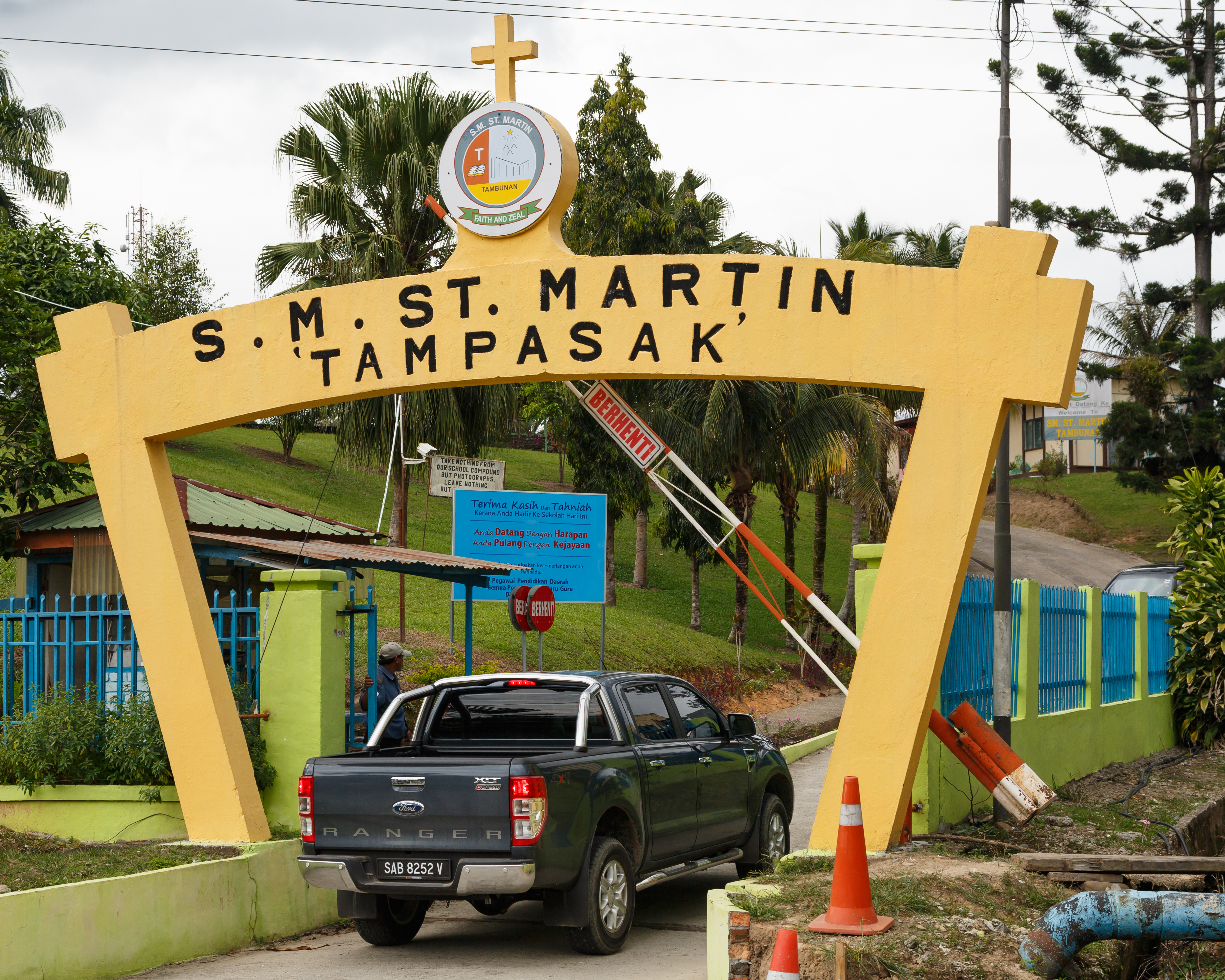 Tambunan, Sabah, Malaysia: SM St. Martin, a secondary school in Sabah.